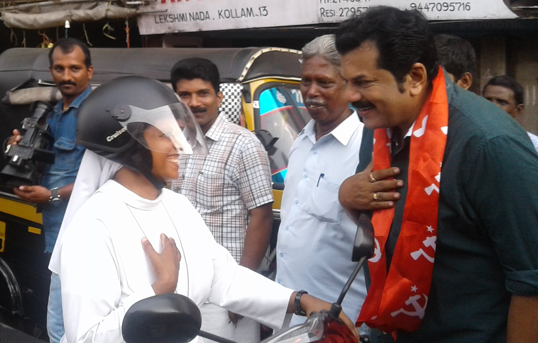 Malayalam cine Actor Mukesh during election campaign 2016 at Kollam